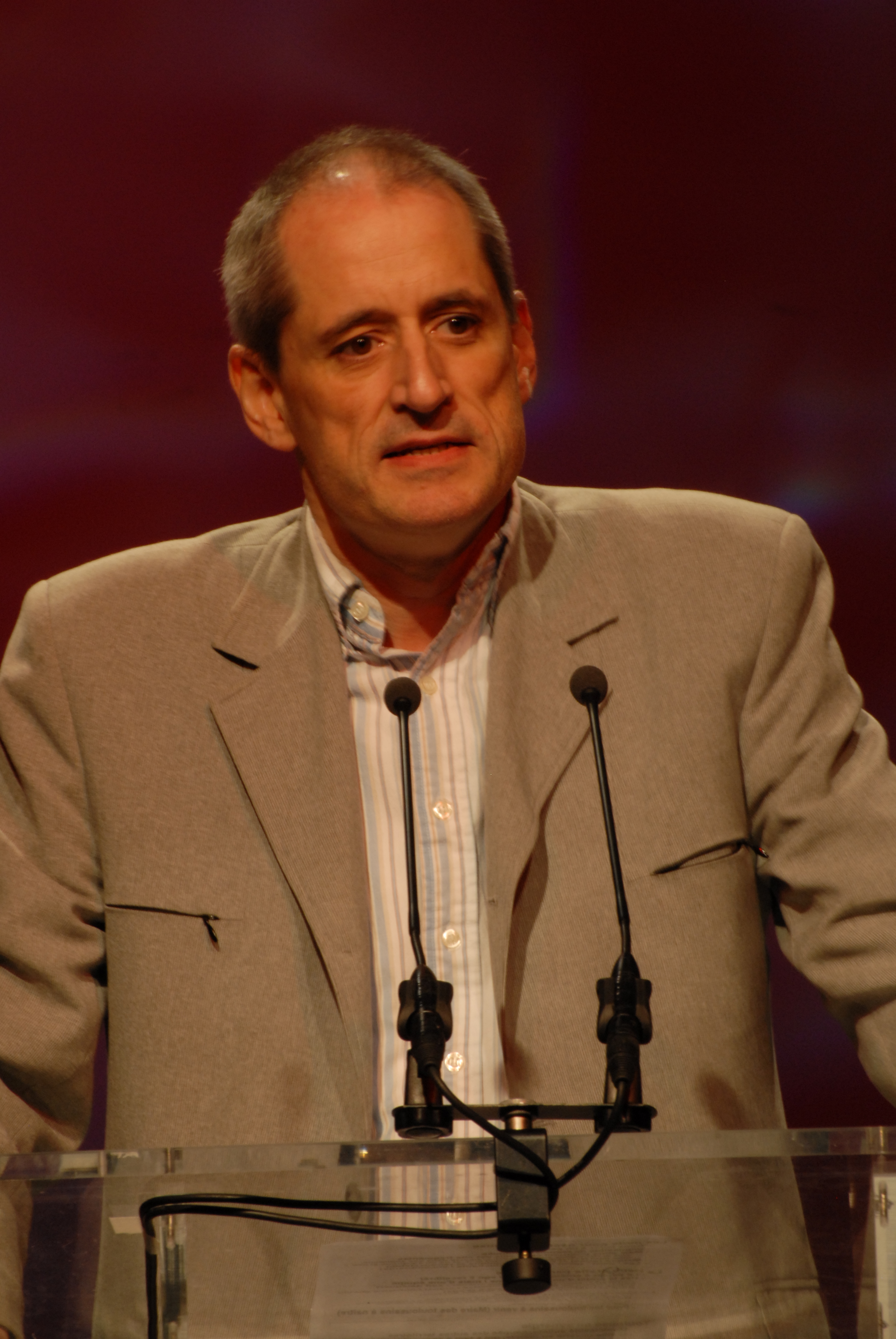 French Member of the European Parliament Gérard Onesta supporting Pierre Cohen's candidacy for the French town elections in Toulouse, 2008.